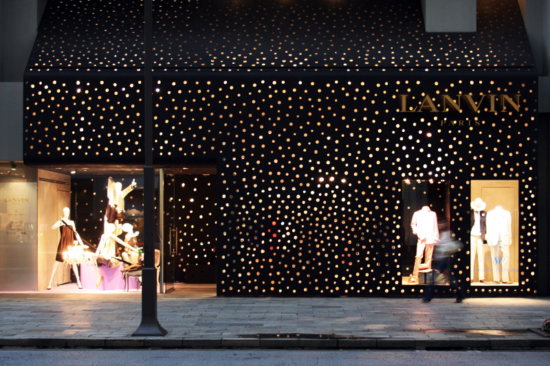 Official store by French fashion house Lanvin at Chuo-Ku in Ginza, Tokyo, Japan (2006)